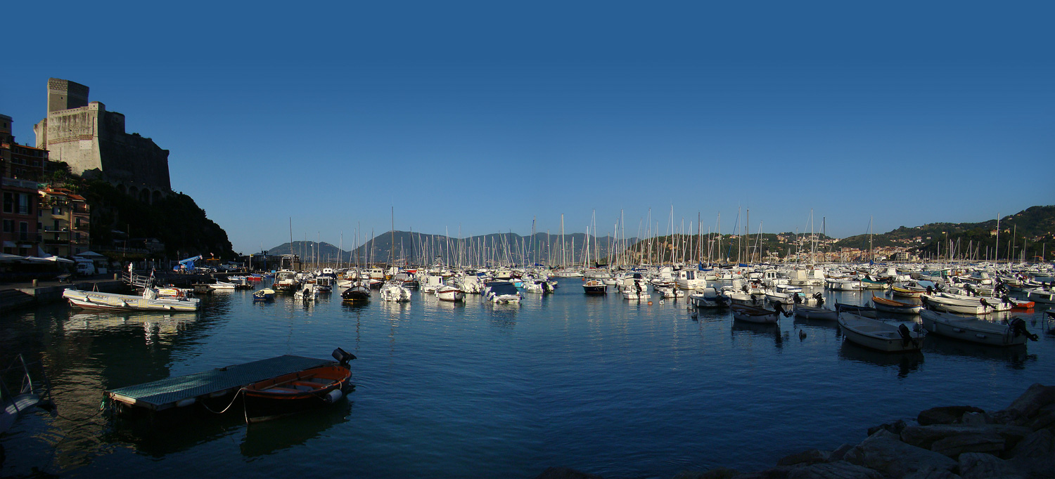 Lerici, Liguria, Italy.